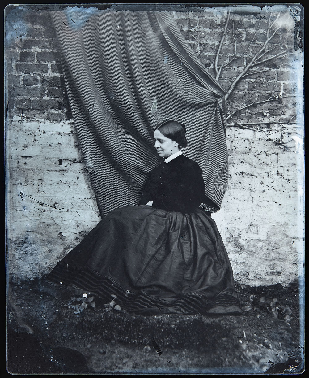 One of a pair of wonderful wet plate collodion negatives measuring 5" x 4". Both are taken against the same wall with tree, but rather different in composition, a different subject, and with a cloth hung over the tree in one case. I estimate these to date to no later than the 1870s.